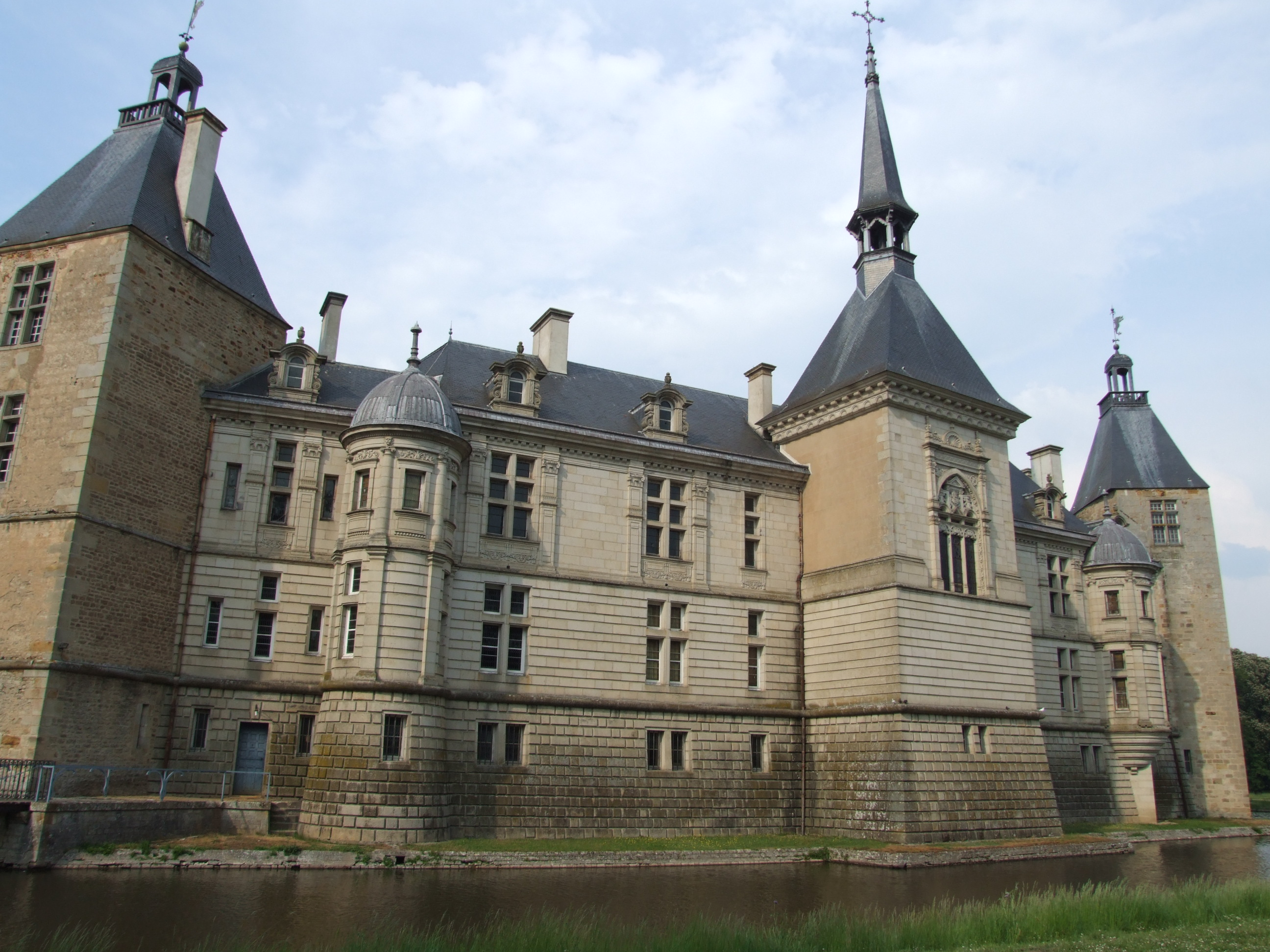 Sully Castle, Sully, Saone et Loire, Burgundy, FRANCE